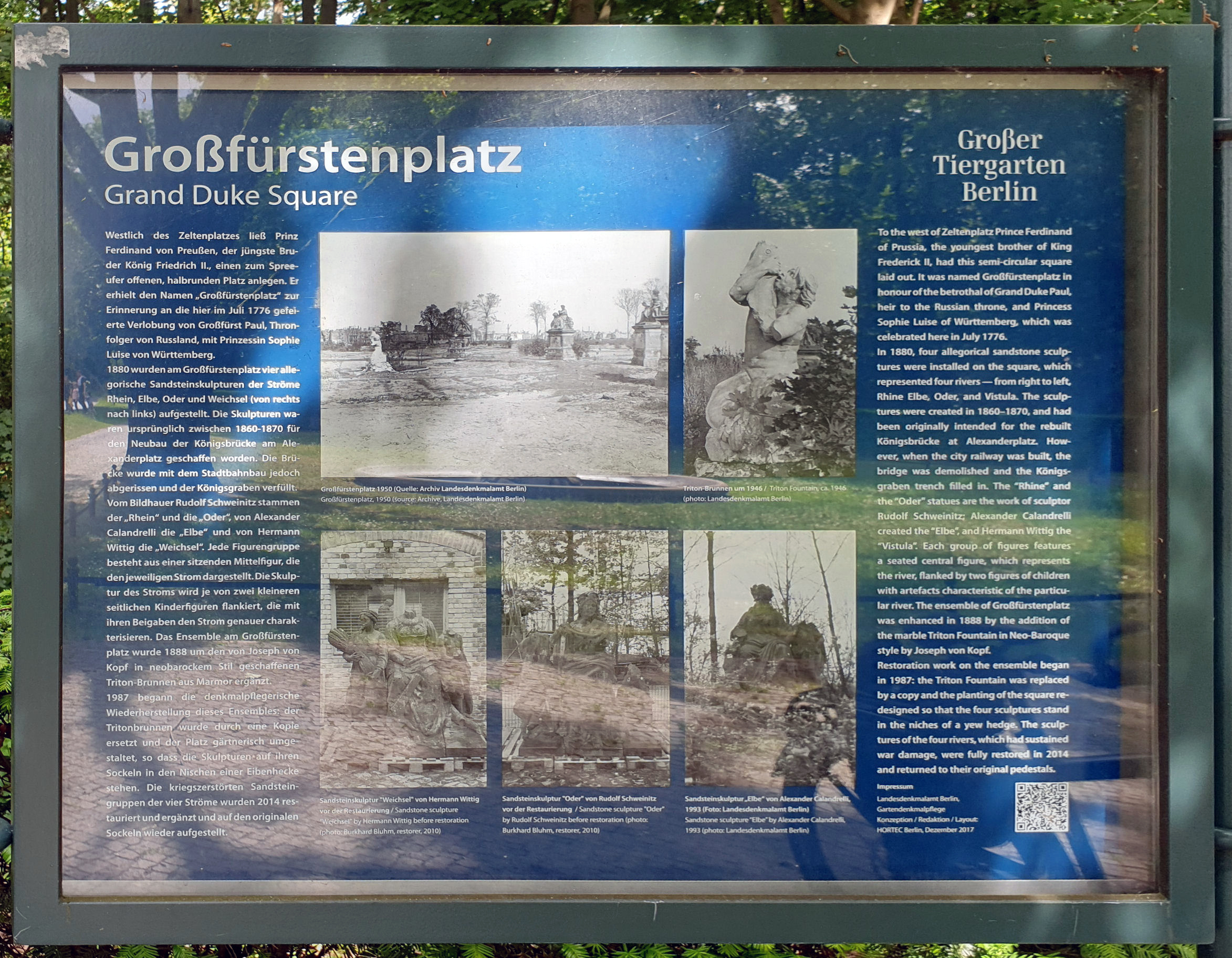 Memorial plaque, Großfürstenplatz, Berlin-Tiergarten, Deutschland